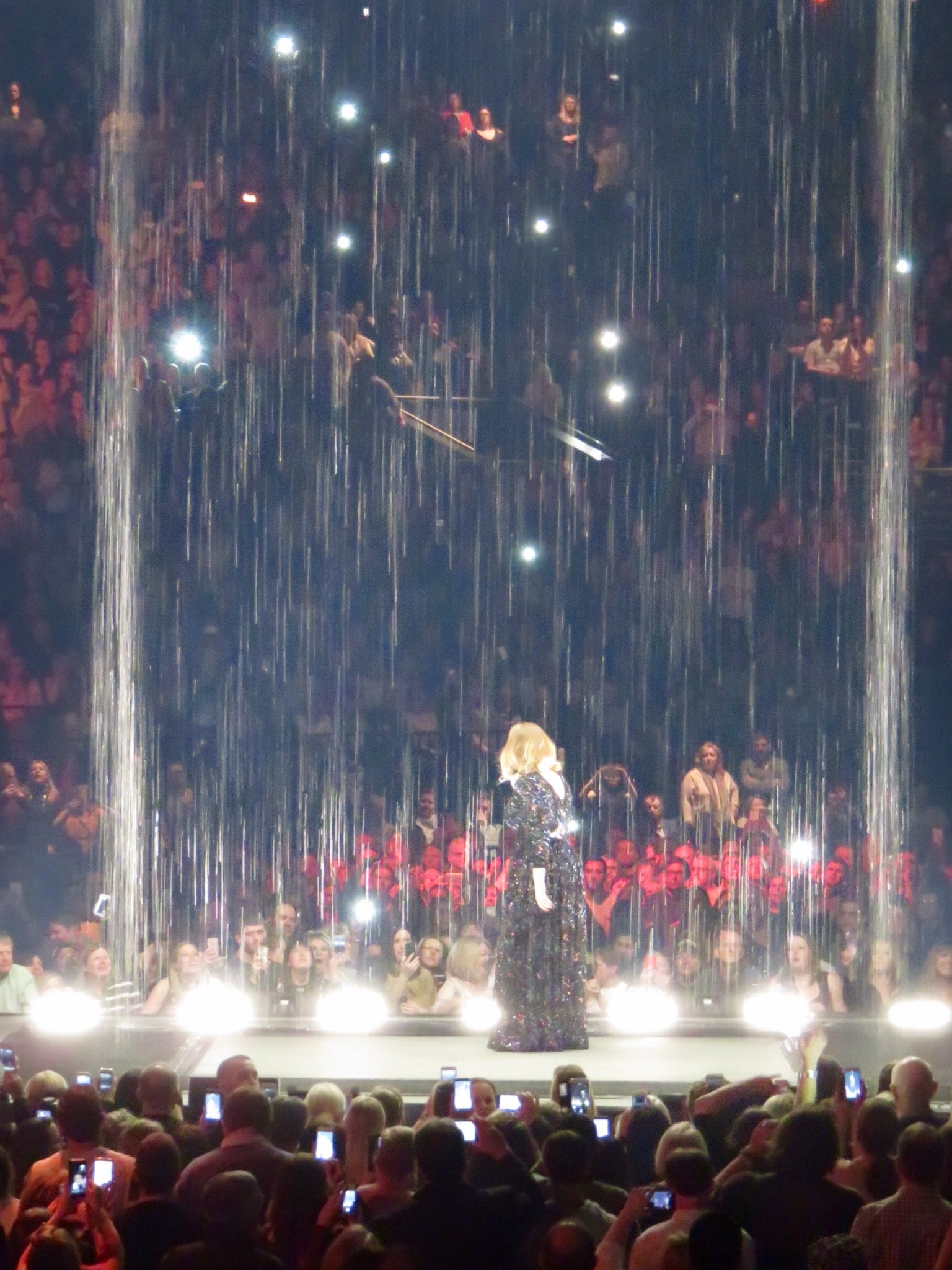 Adele singing Set Fire to the Rain at the Genting Arena, Birmingham, March 2016 as part of her Live 2016 tour.